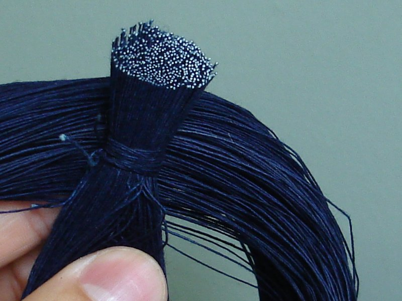 Cotton yarn dyed with indigo dye